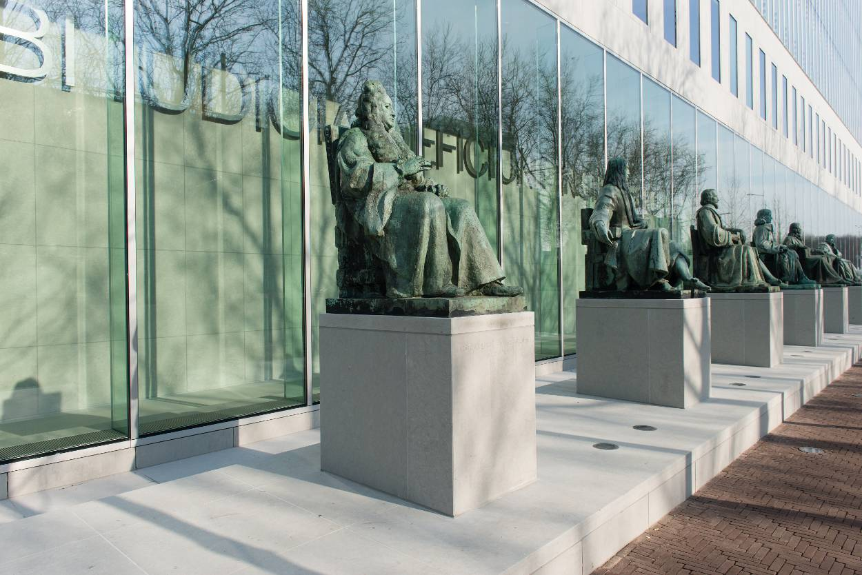 Group of statues of Dutch jurists in front of the building of the Supreme Court of the Netherlands in The Hague.